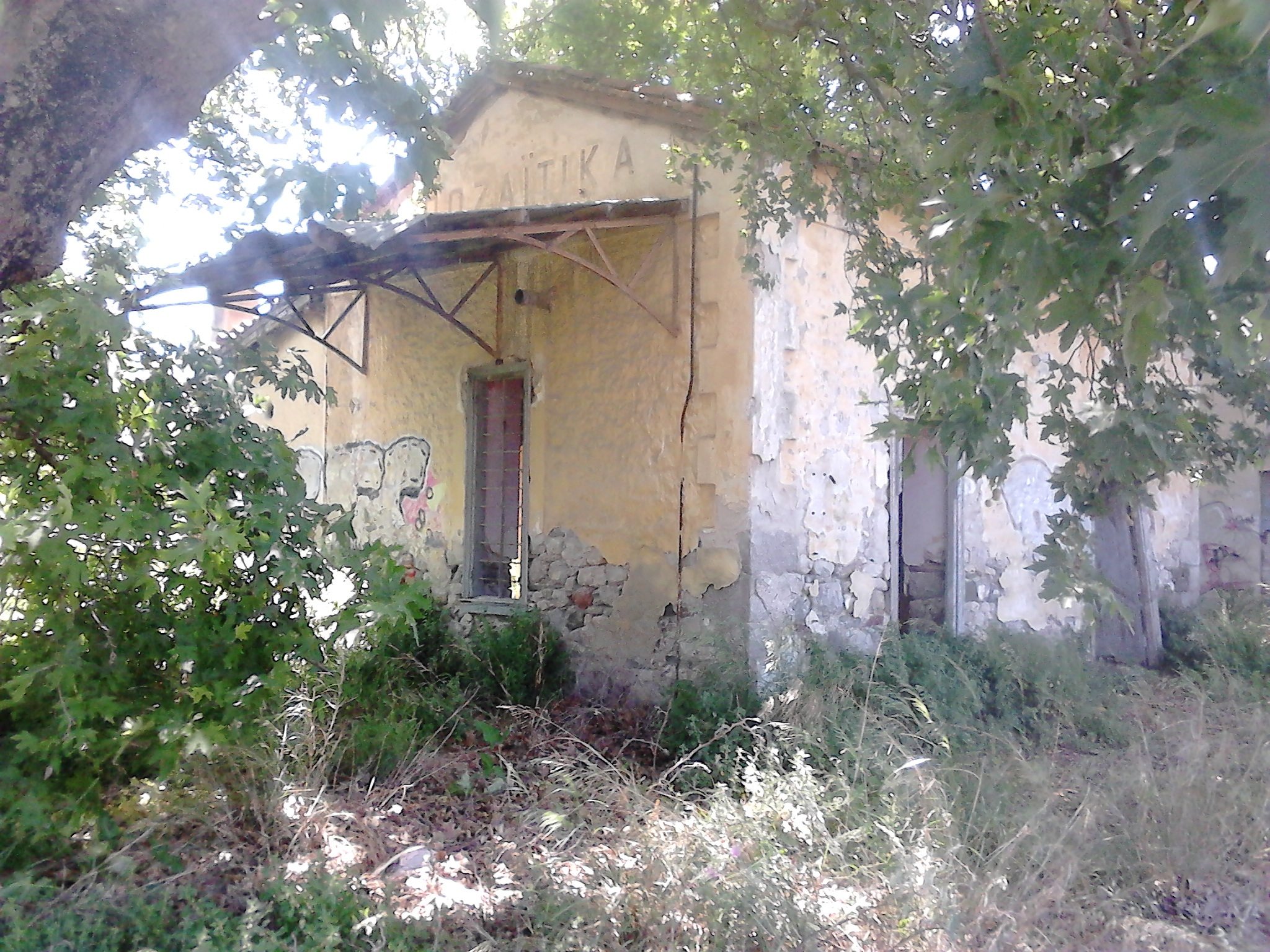 Old train station Bozaitika Patras